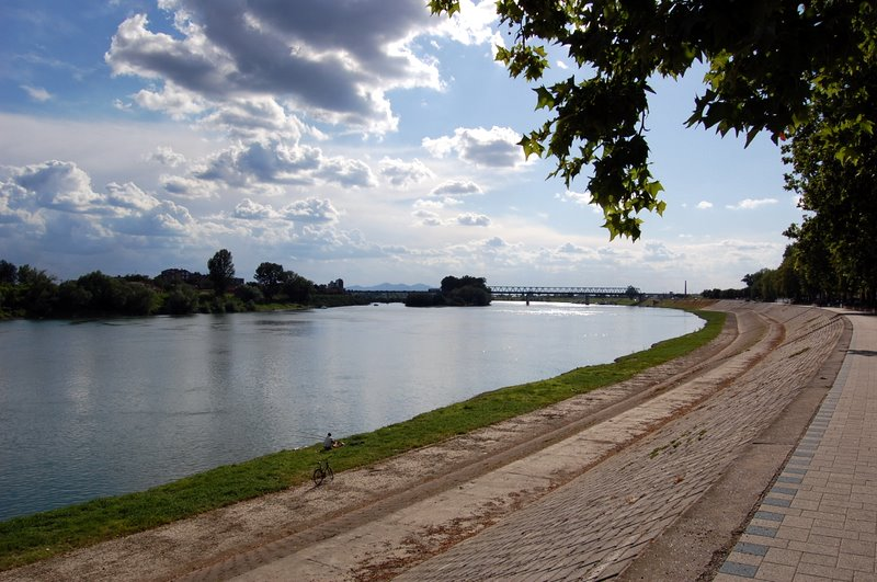 River Save at Slavonski Brod. View on bridge towards Bosnia.